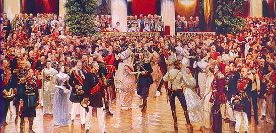 Ekaterine Dadiani attending the coronation ball of Alexander II of Russia in Winter Palace along with her family. 1868